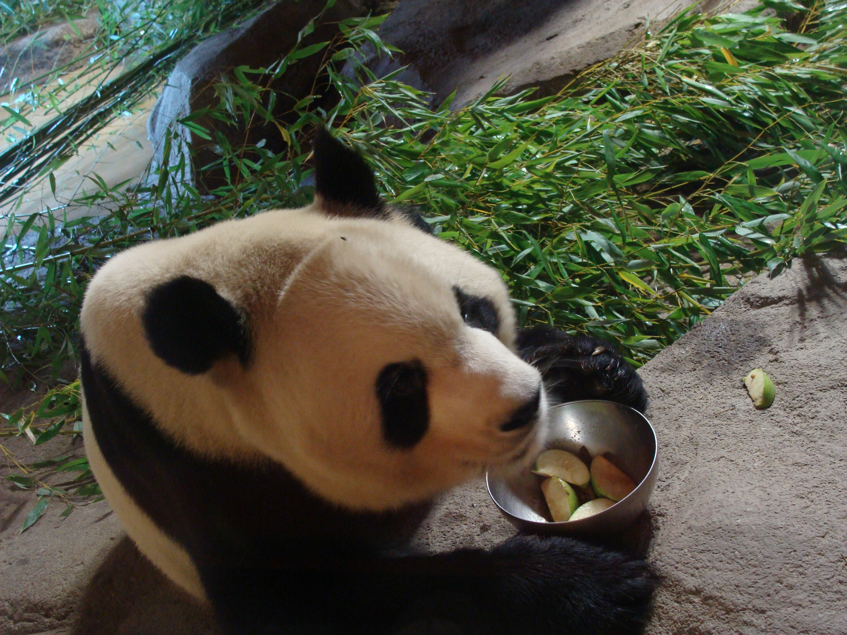 Ailuropoda melanoleuca (Giant panda) in the Zoo de Madrid, Spain.